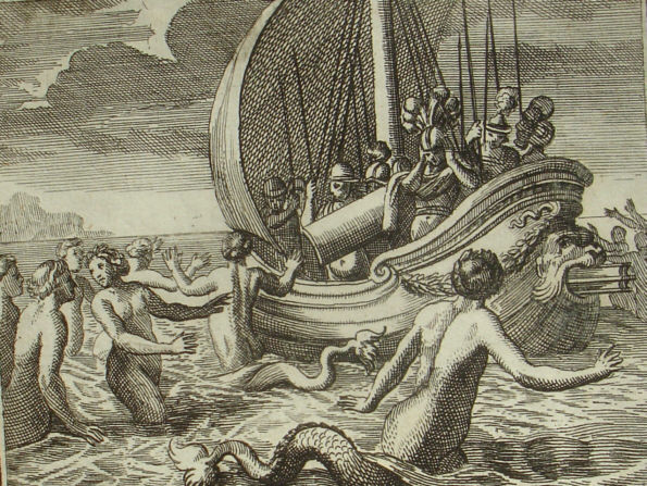 Engraving by Johann Ulrich Krauß, 1690.